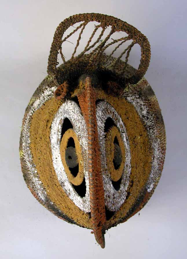 Unidentified Abelam Artist. Helmet Mask (Baba Tagwa). Papua New Guinea. 20th century. The Baltimore Museum of Art: Gift of Geneviève McMillan in Memory of Reba Stewart. BMA 2008.223